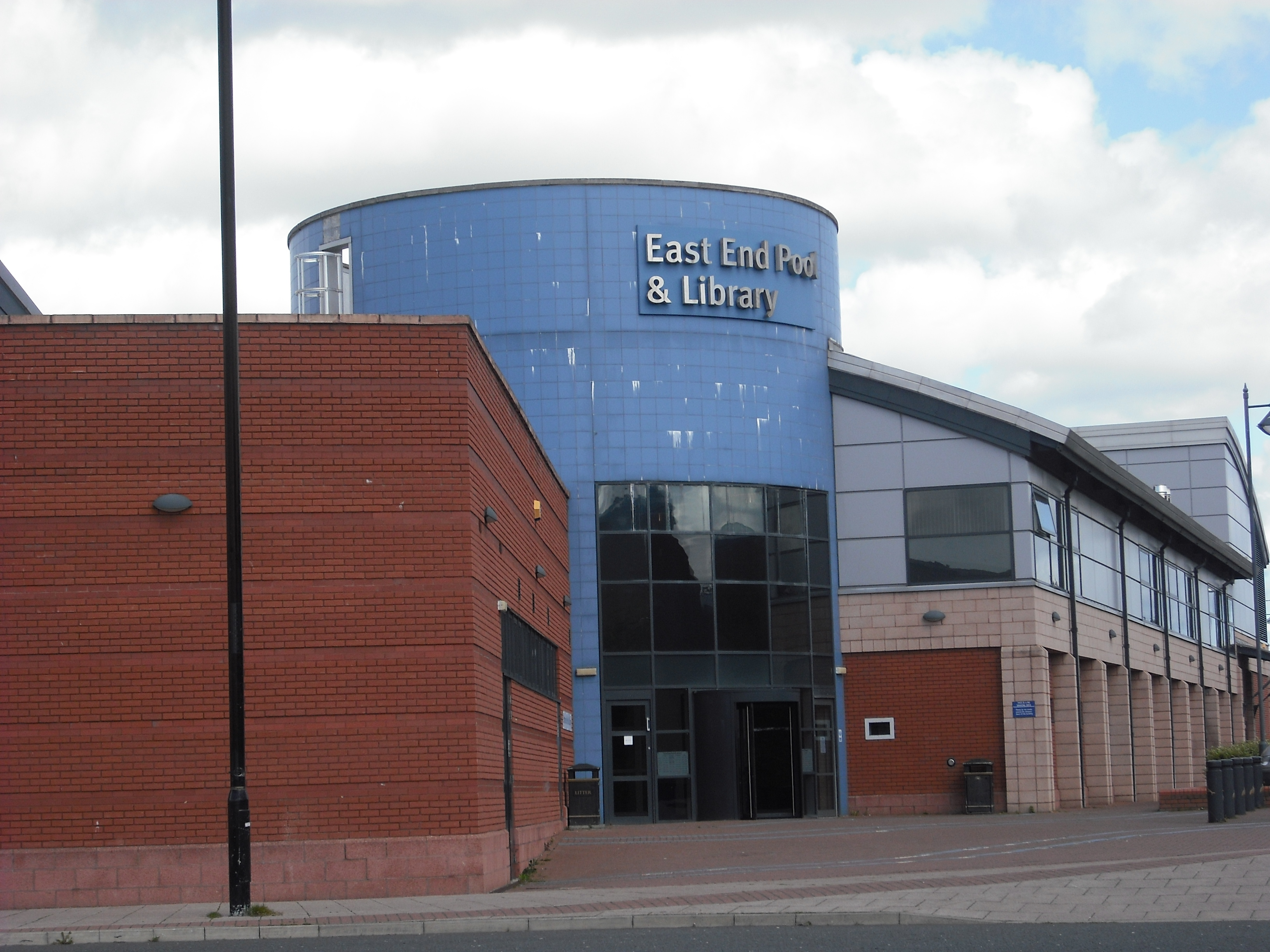 The East End Pool and Library in Byker, Newcastle upon Tyne